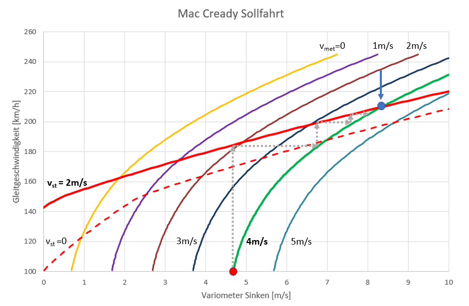 MacCready Curves